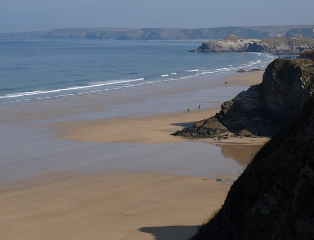 Great Western Beach, Newquay. Taken from the same viewpoint as 1758789. Tolcarne Point, jutting out into the sand, marks the division between Great Western Beach and Tolcarne Beach beyond; the sand beyond is also across a northing gridline in SW8162. Trevelgue Head, the next headland, is in SW8263.